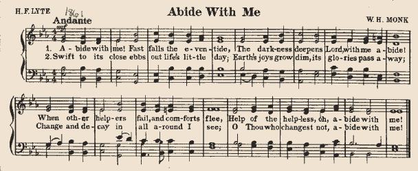 Sheet music for Abide with me